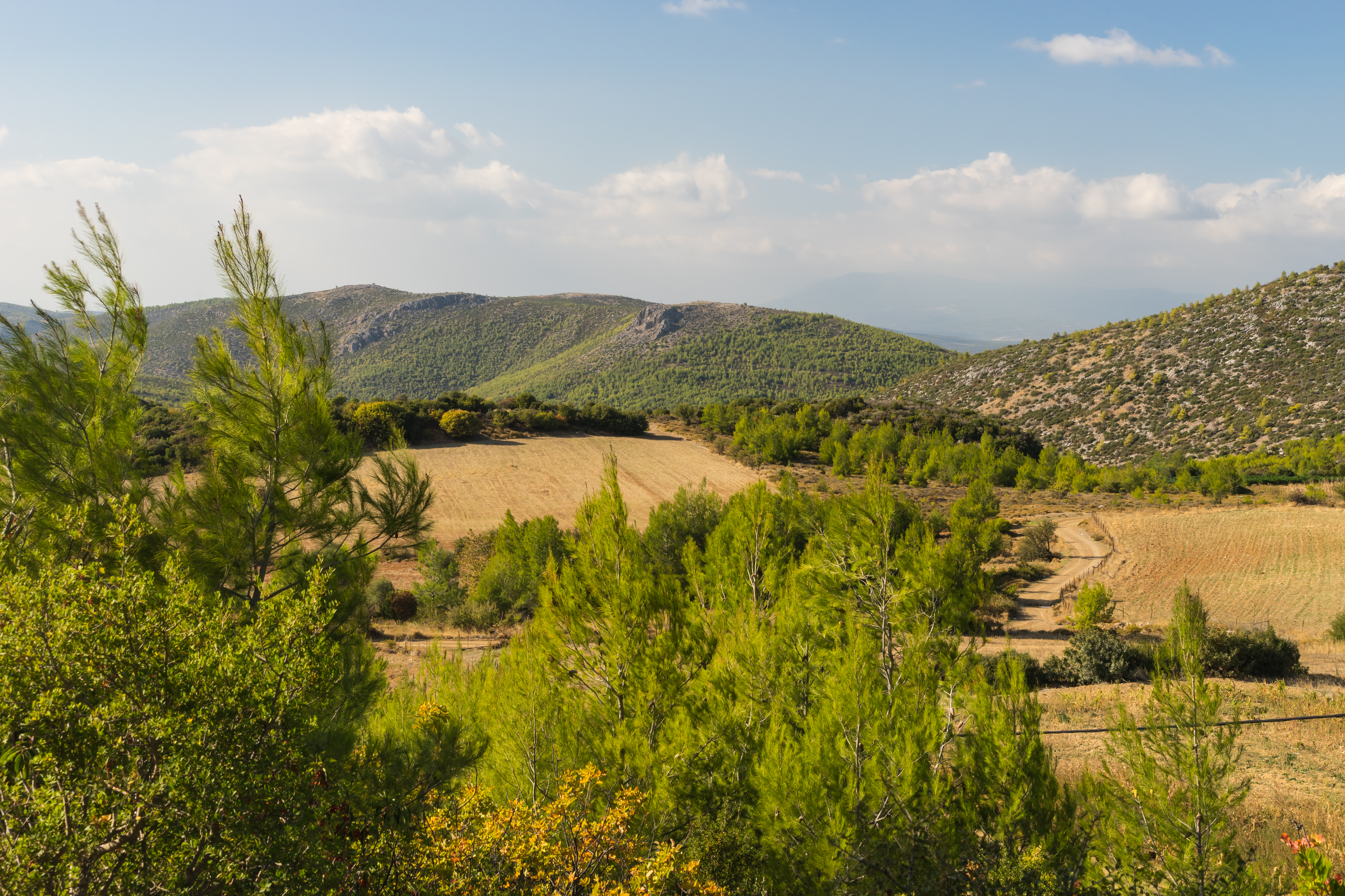 Landscape of Euboea, close to Eretria, Euboea, Greece